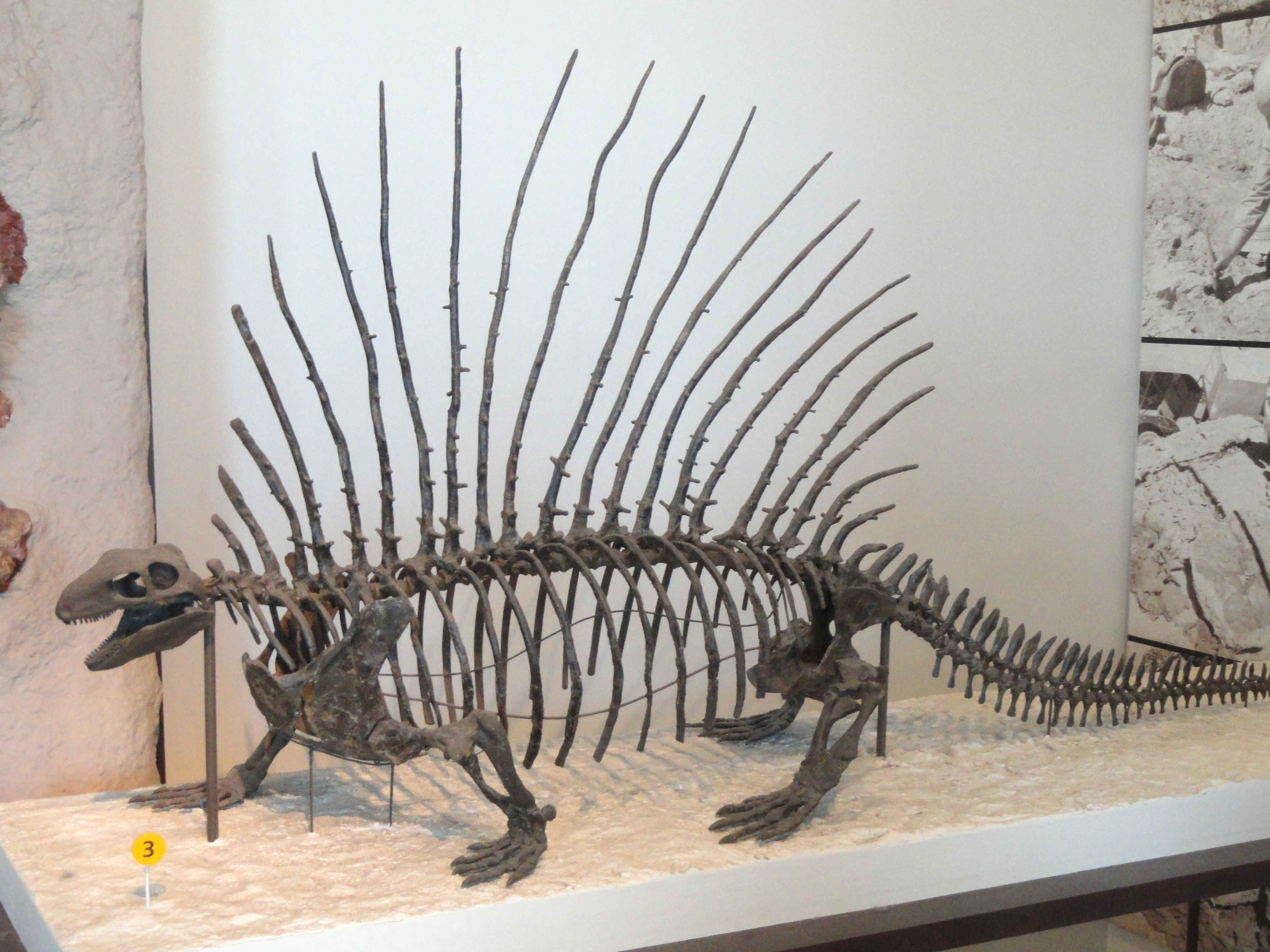 Exhibit in the fossil collection of the American Museum of Natural History, Manhattan, New York City, New York, USA.